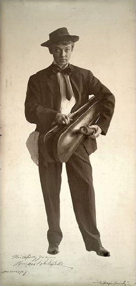 Actor Walker Whitestone